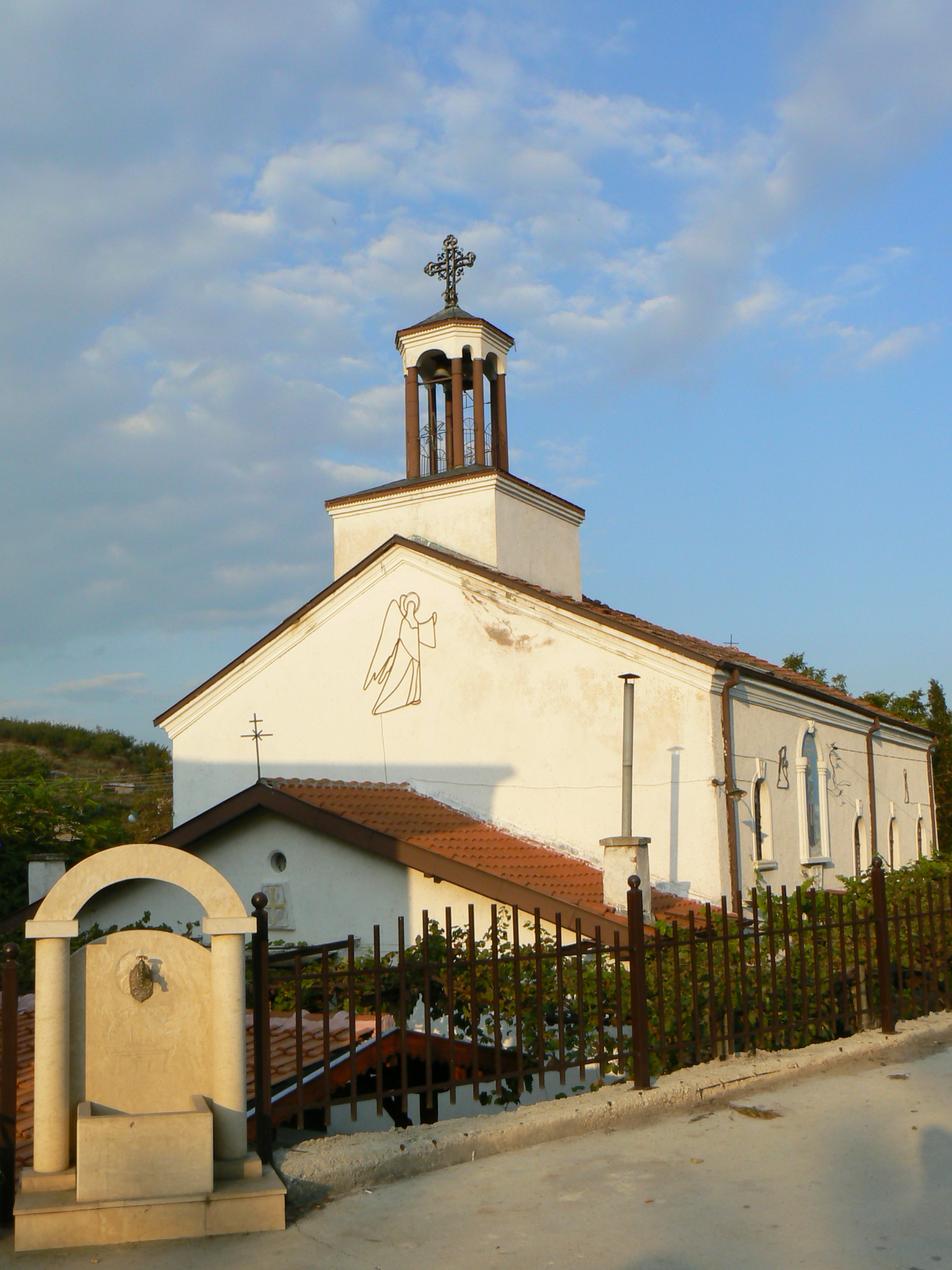 Church "Saint Petka" in Drangovo village, Blagoevgrad District, Bulgaria